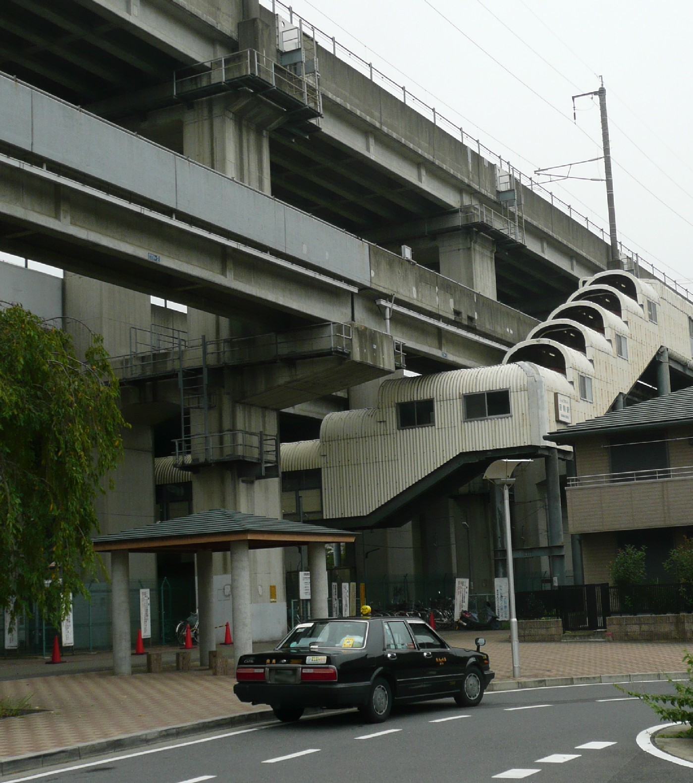 Shonan Station